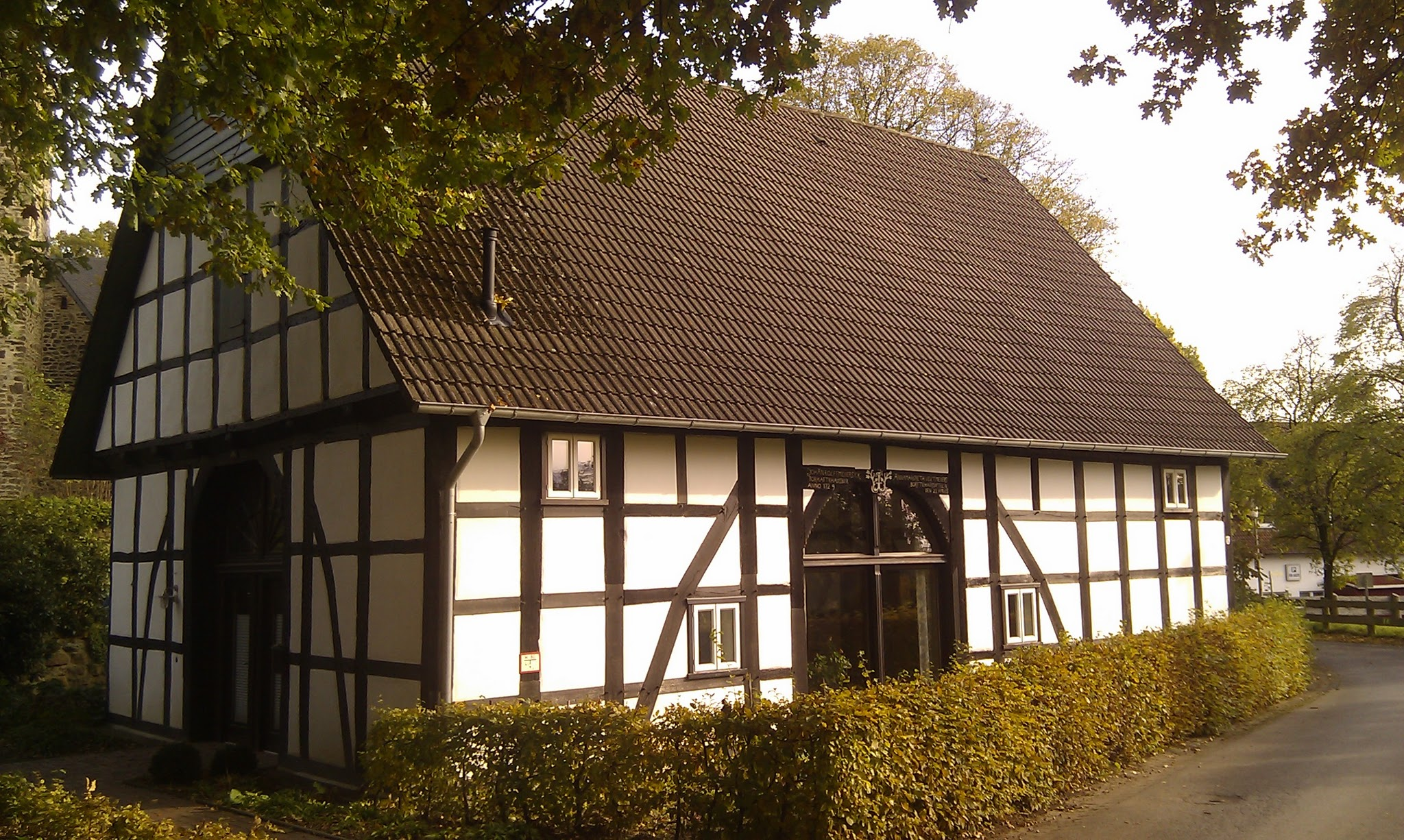 Timber framed home in Rödinghausen, District of Herford, North Rhine-Westphalia, Germany.